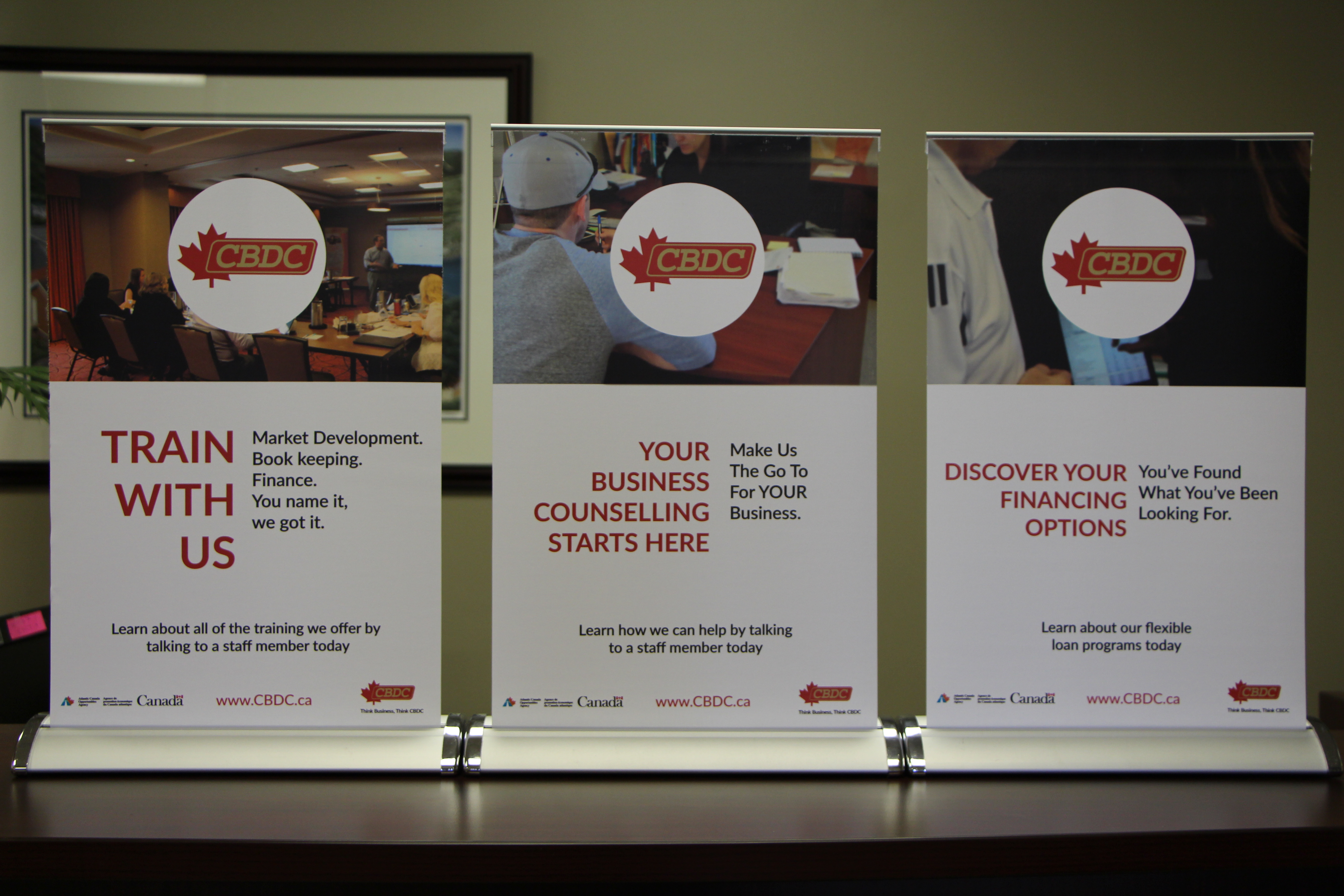 Pop up banners highlighting CBDC services